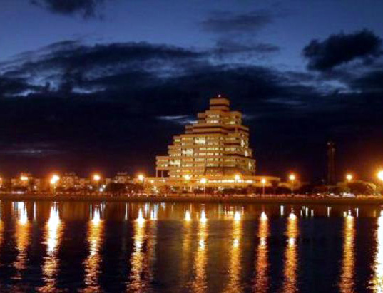 The Daawa alIslamiyah building was built by Daewoo in the early 90's. The bottom floor has some shopping facilities but the building is mainly dedicated to company offices. Source.